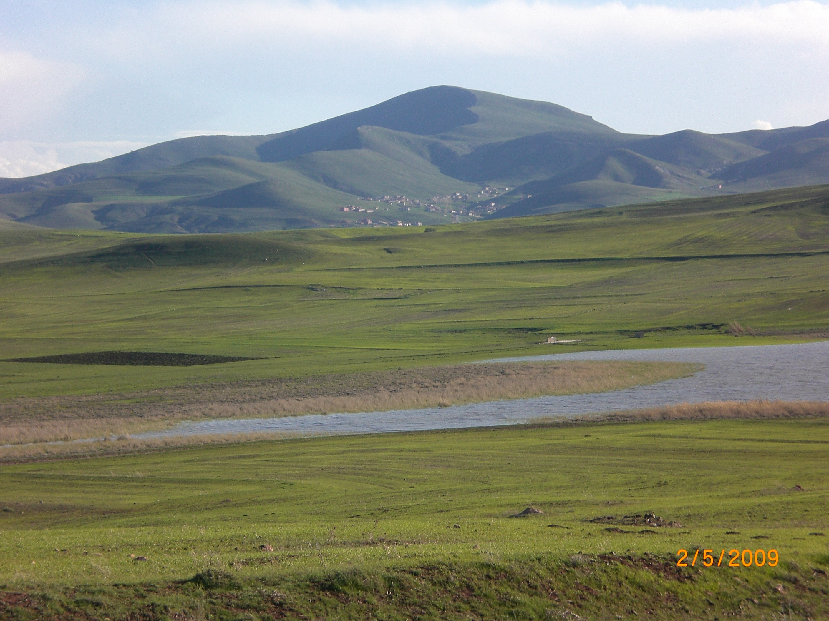 Salih Canpınar's impression of the Kömüşini lake